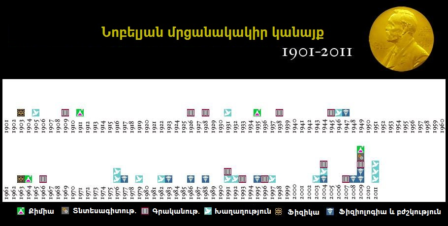 Female nobel laureates